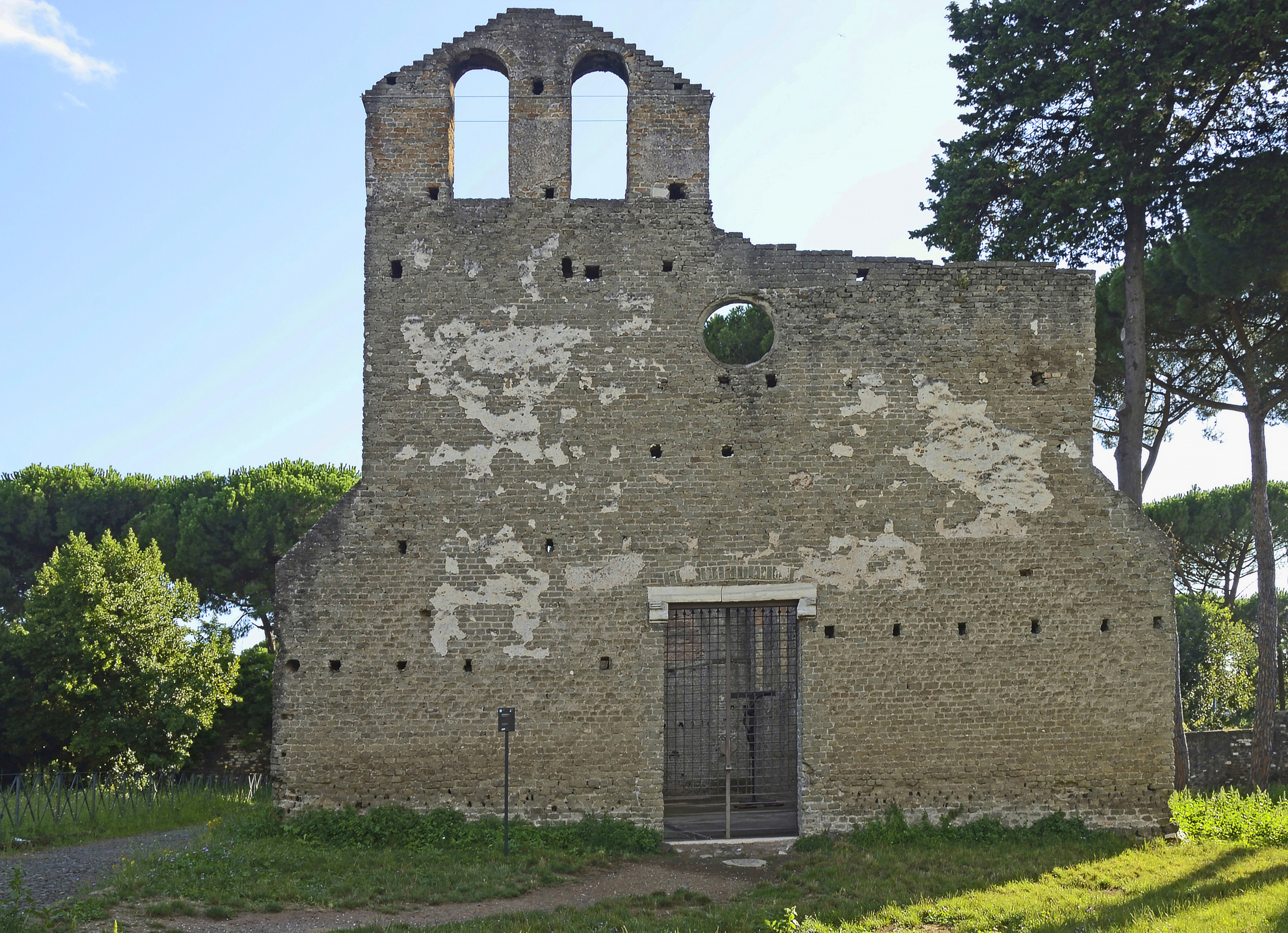 San_Nicola_a_Capo_di_Bove_(Rome)